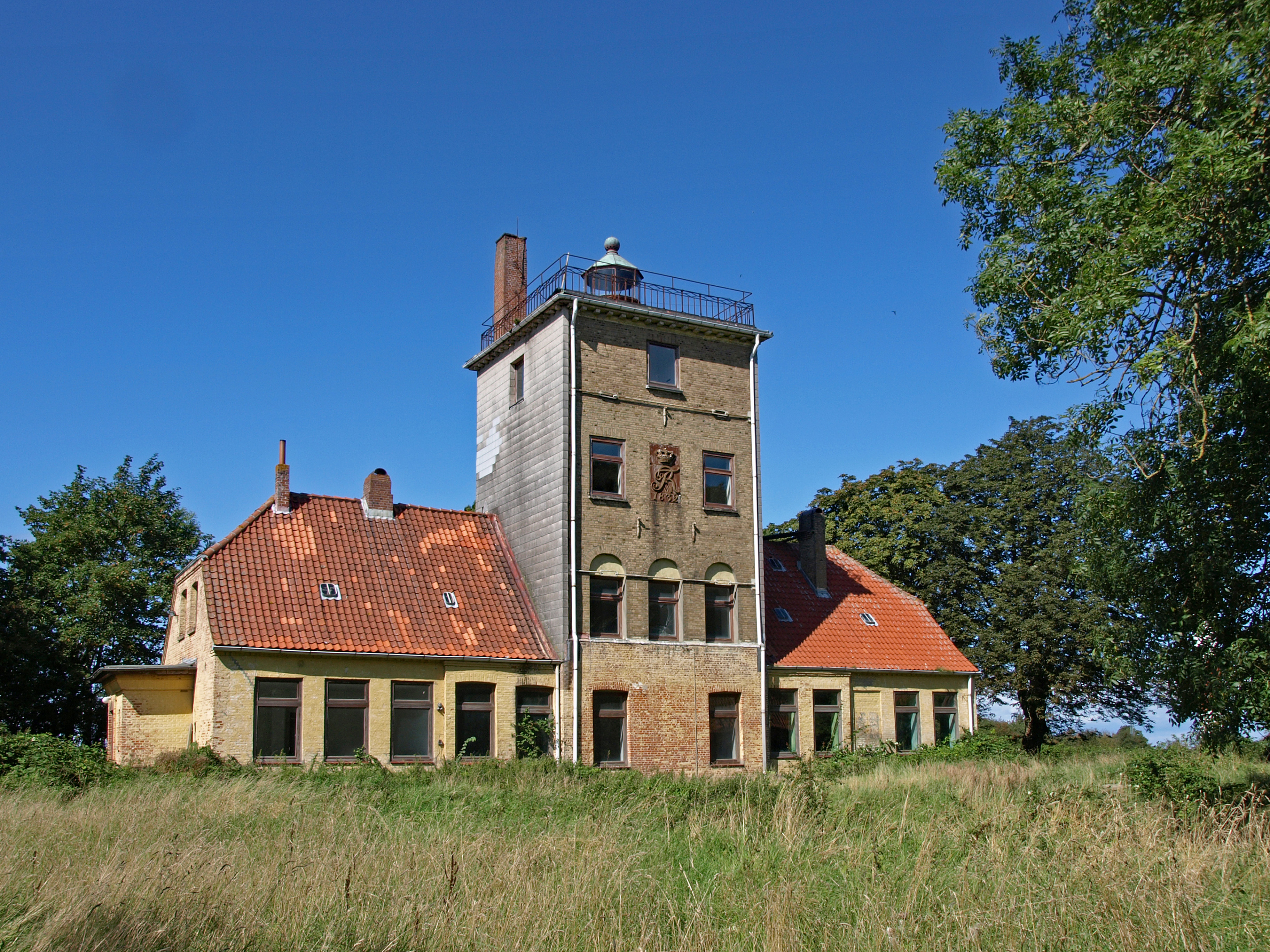 der alte Leuchtturm Marienleuchten auf Fehmarn